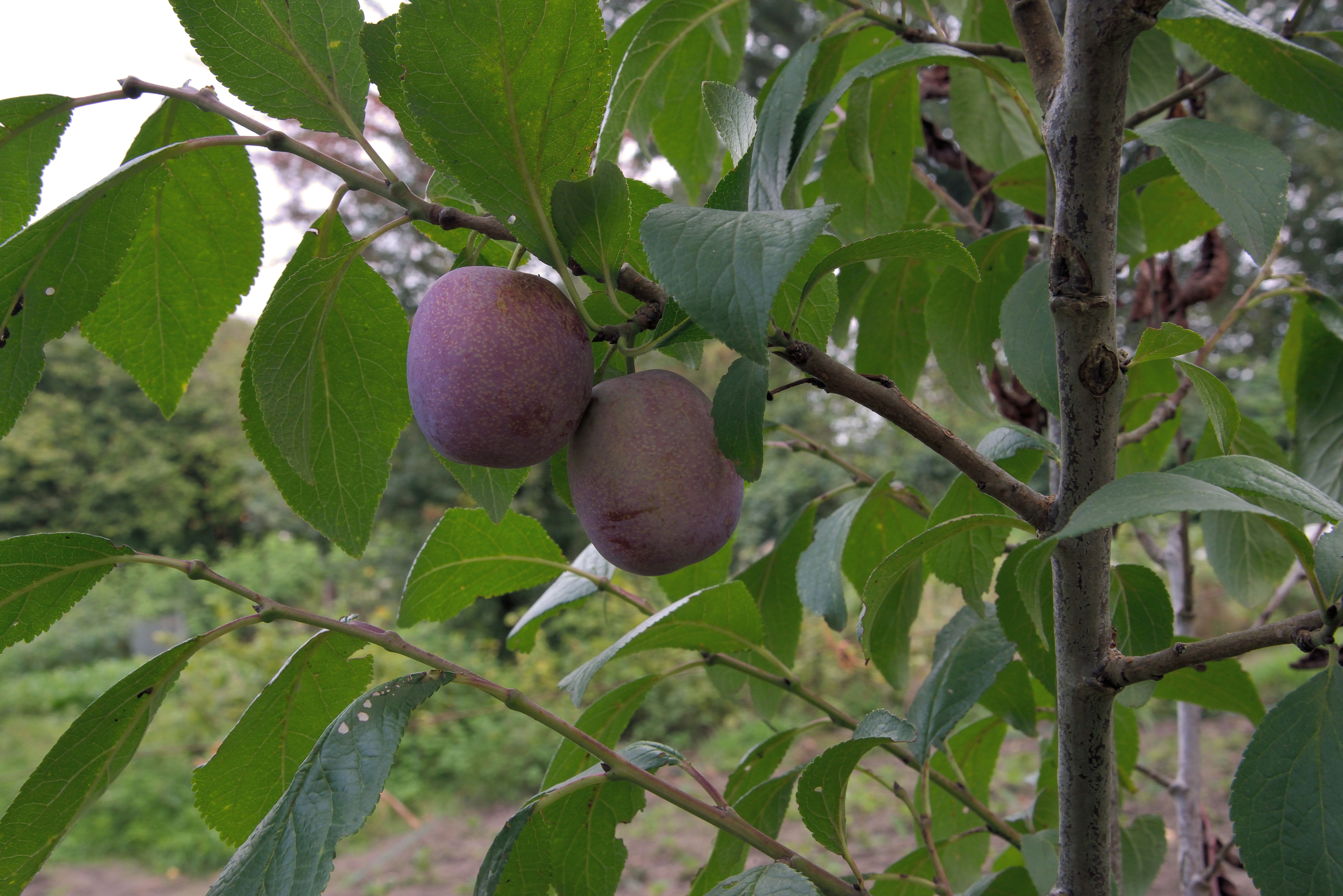 Prunus domestica 'Anna_späth'